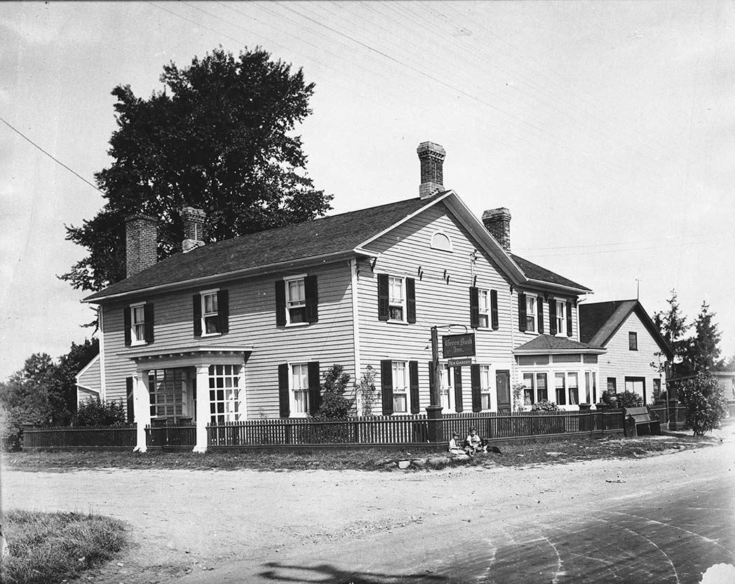 Green Bush Inn, Yonge Street, Steele's Corners, North York Township (now Toronto, Canada). Northwest corner of Yonge Street and Steeles Avenue.